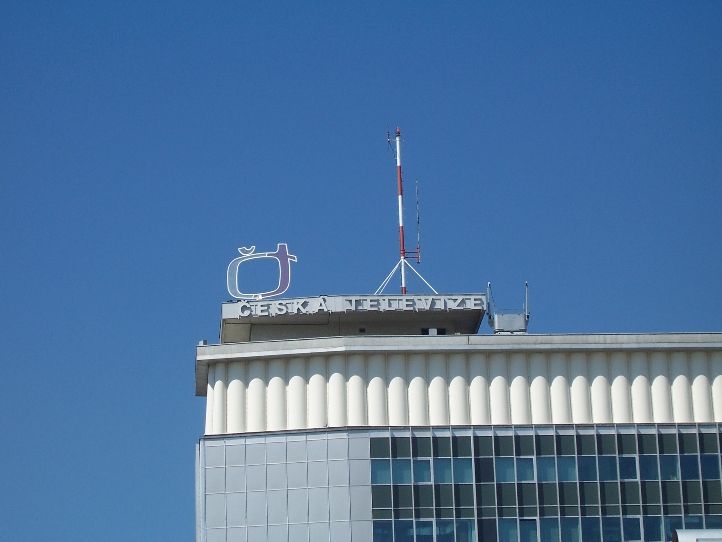 Detail of high-rise building of Czech Television on the Kavčí hory.